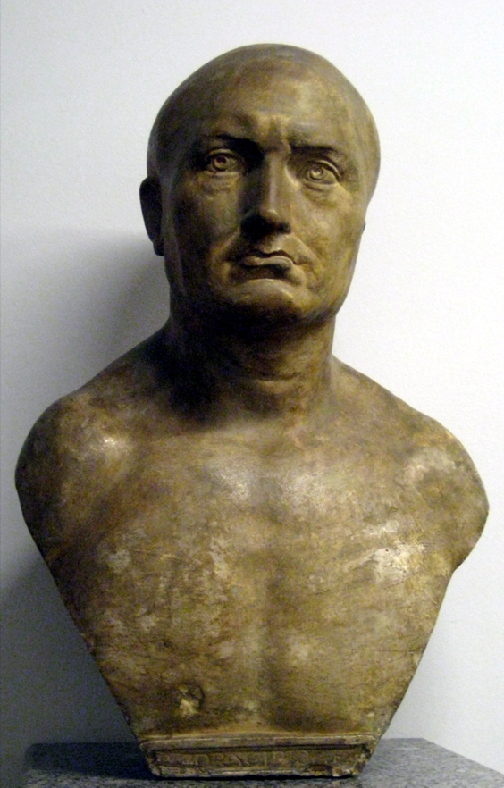 Priest of Isis. Cast NOT Scipio!!! A priest of Isis (so-called Publius Cornelius Scipio Africanus). Marble. Inscription is modern. Inv. No. MC 562. Rome, Capitoline Museums, Palazzo Nuovo, Gallery (Musei capitolini, Palazzo Nuovo, Galleria)